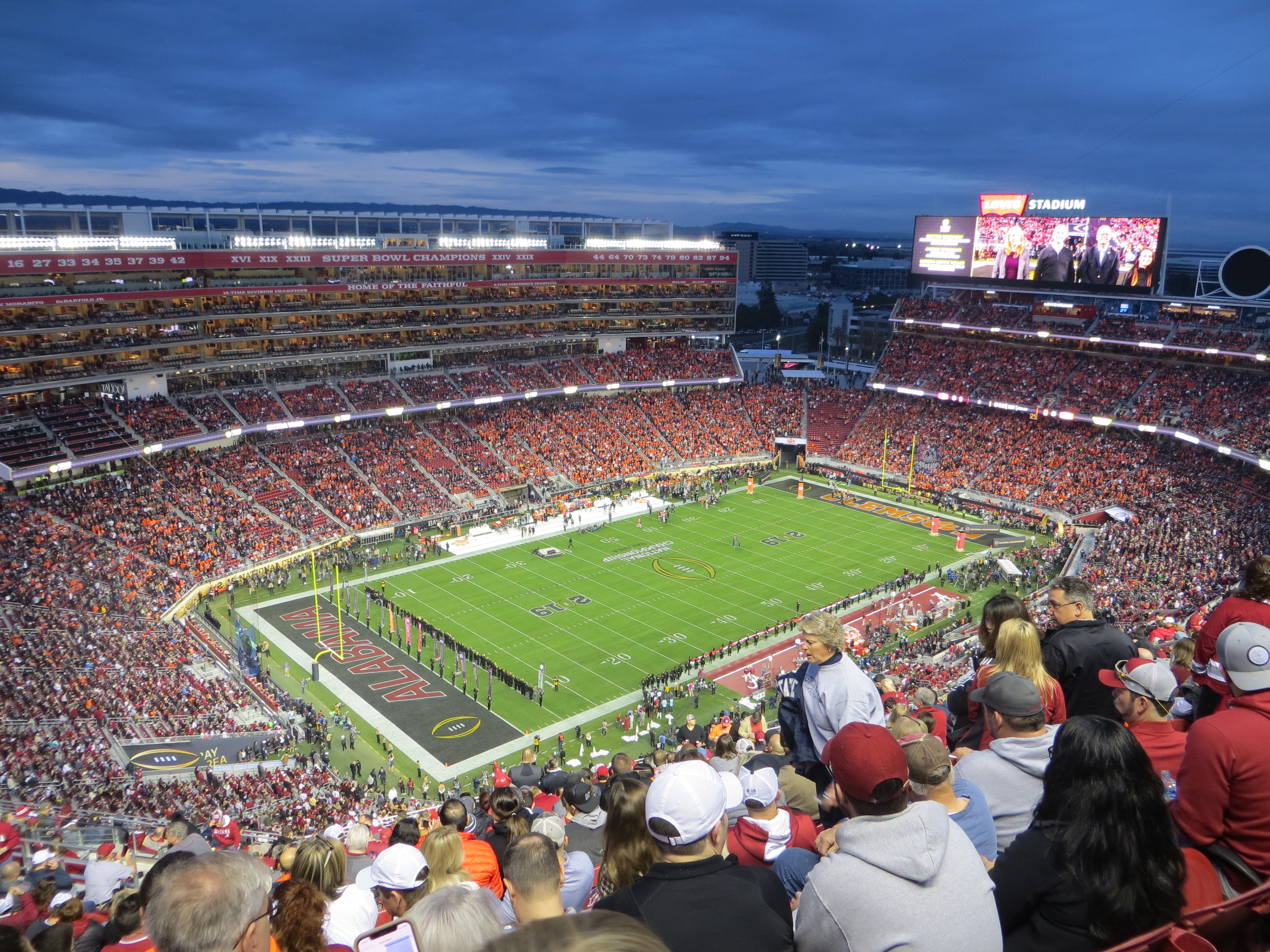 Before the game starts, the College Football Playoff honored the "Teacher of the Year" for each of the 50 states, including one that was picked as the national teacher of the year - at the 2019 College Football Playoff National Championship.